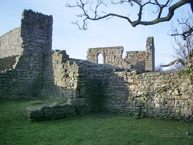 Photograph